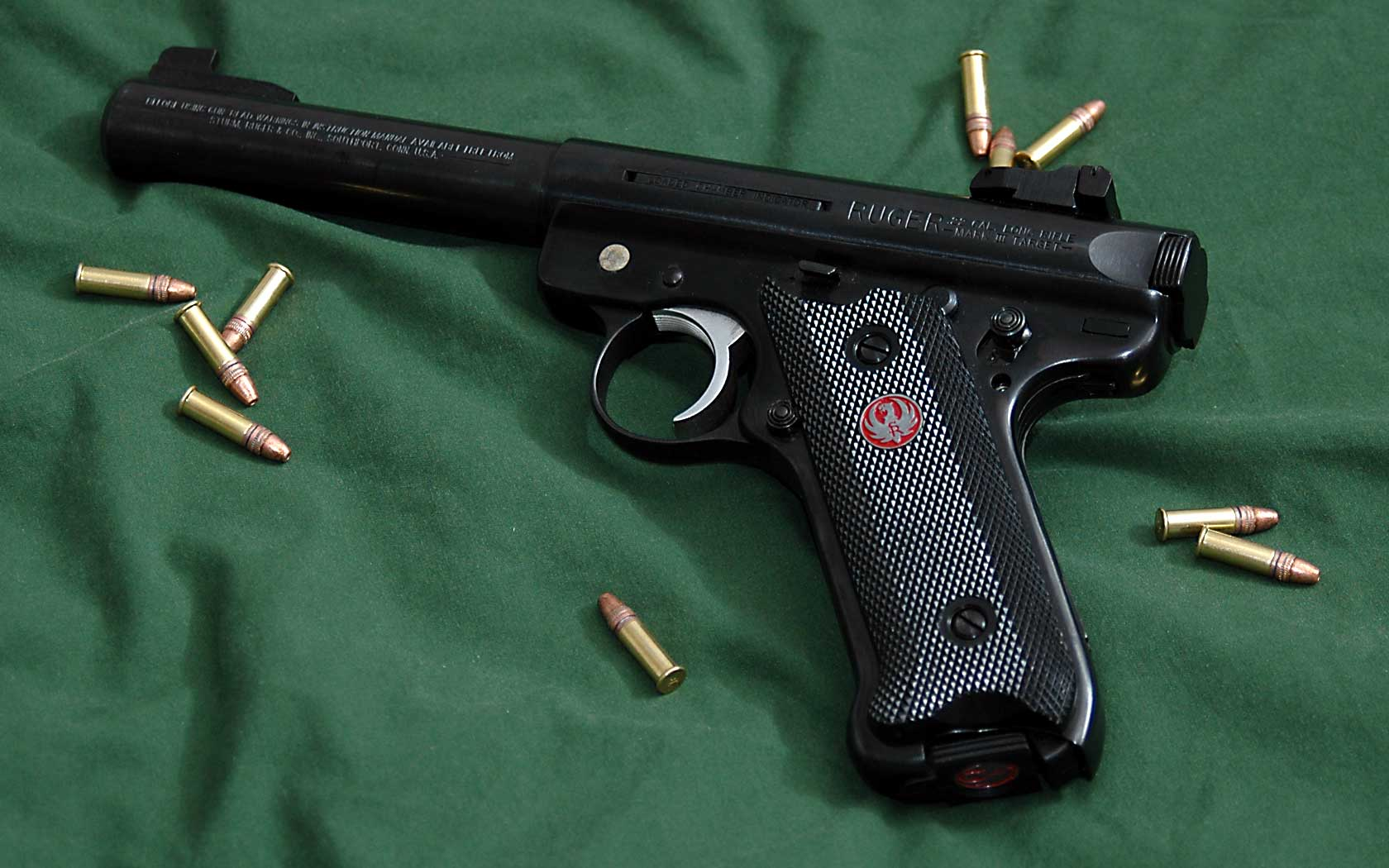 Ruger MK III Bull barrel .22 LR semi-automatic pistol. It is surrounded by .22 LR rounds.